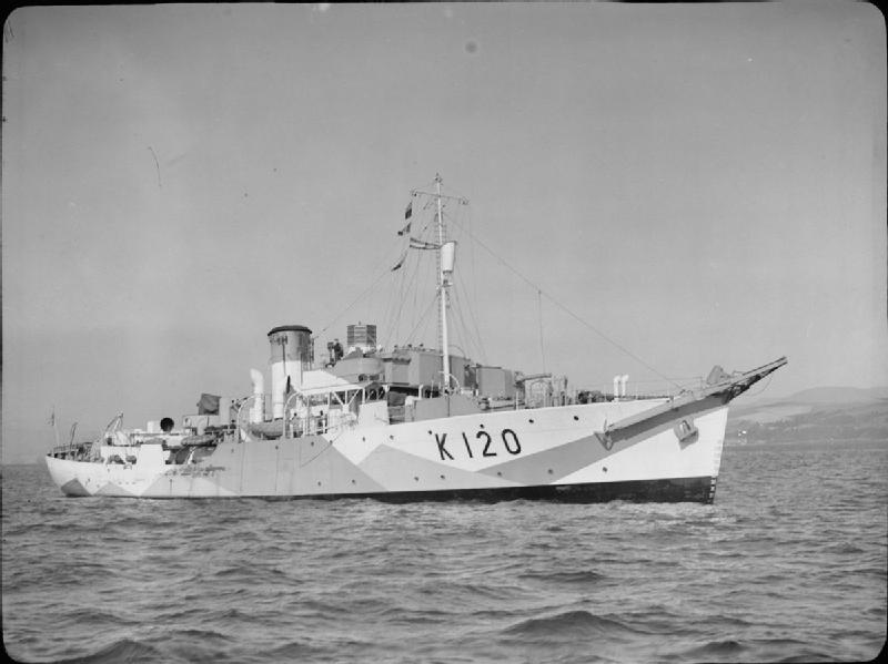 HMS Borage Underway.